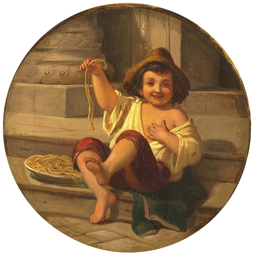 Julius Moser (1805-1879): Spaghetti essender Junge, Roma, 19th century Oil on canvas, 33 × 33